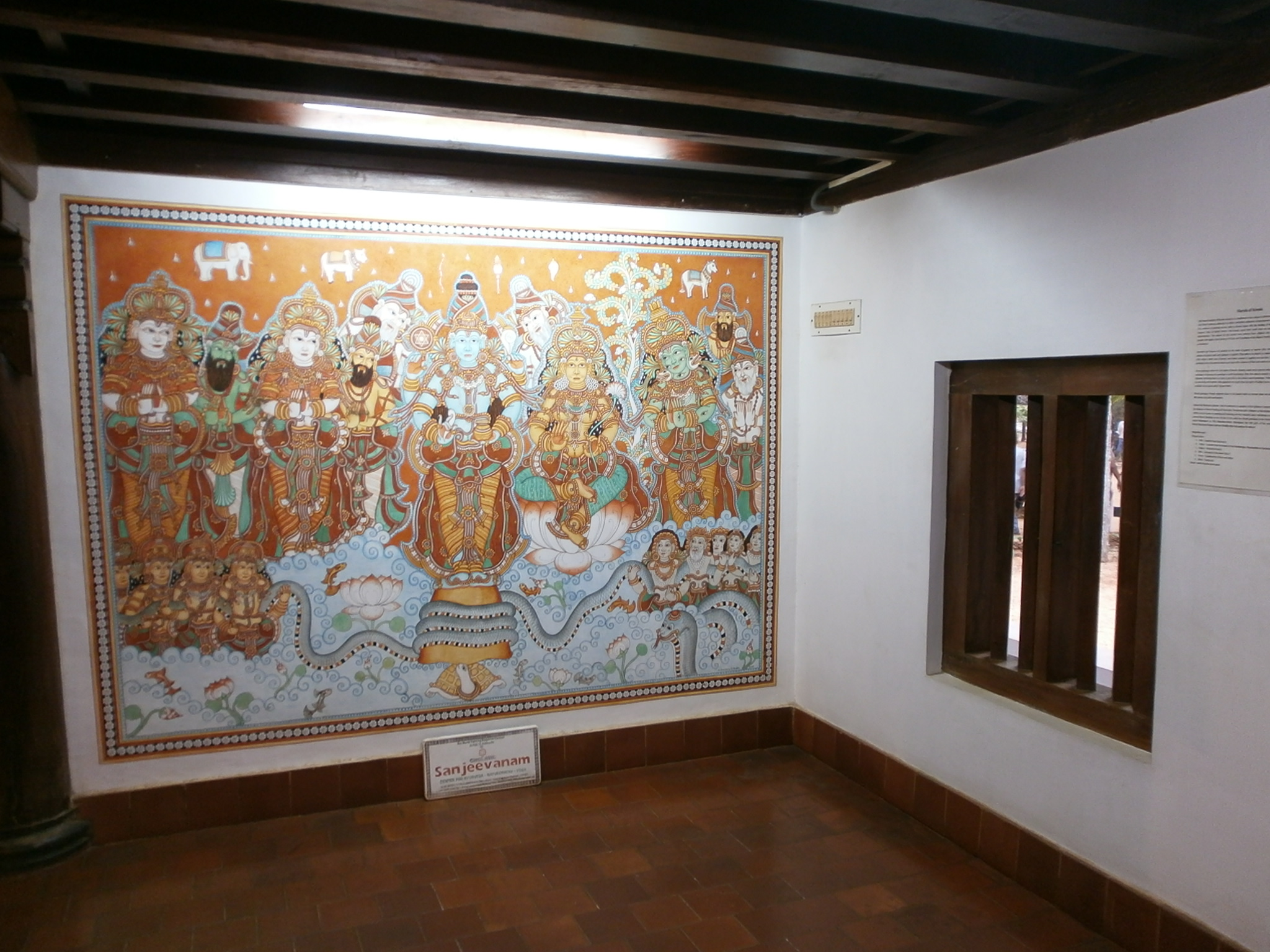 Dakshina-Chitra-Inside-House-4